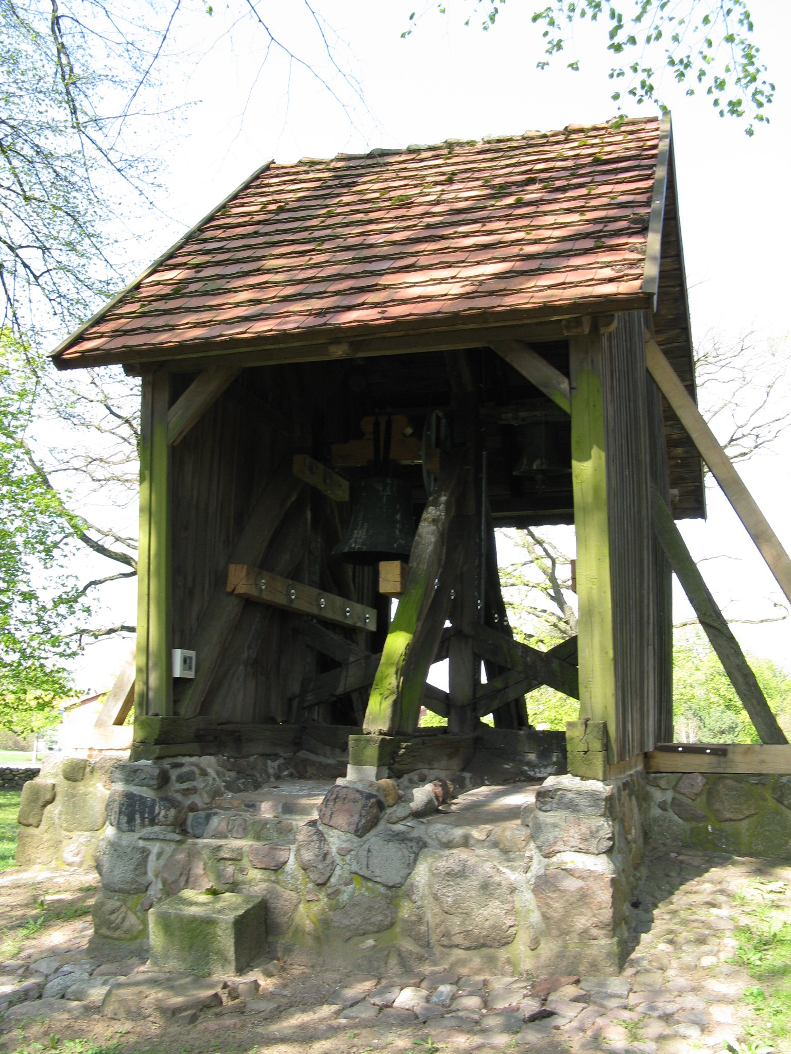 Church in Wamckow, disctrict Parchim, Mecklenburg-Vorpommern, Germany